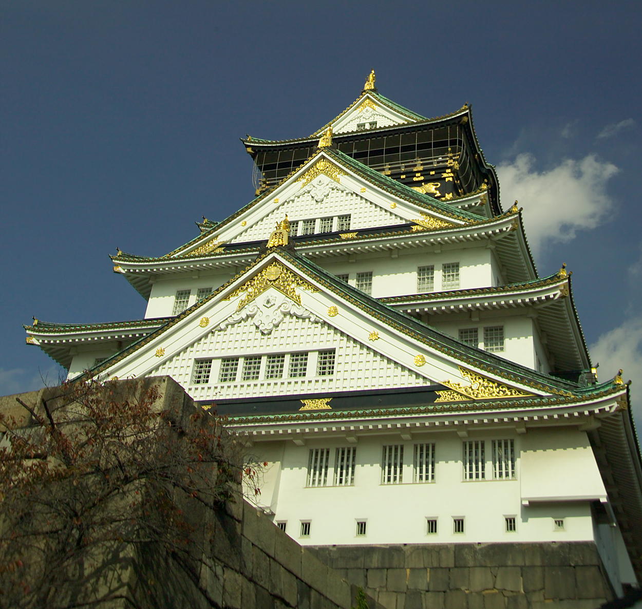 This photo shows Osaka Castle in the city of Osaka, Osaka Prefecture, Japan. I took the photo and contribute my rights in the file to the public domain; individuals and organizations retain rights to images in it.